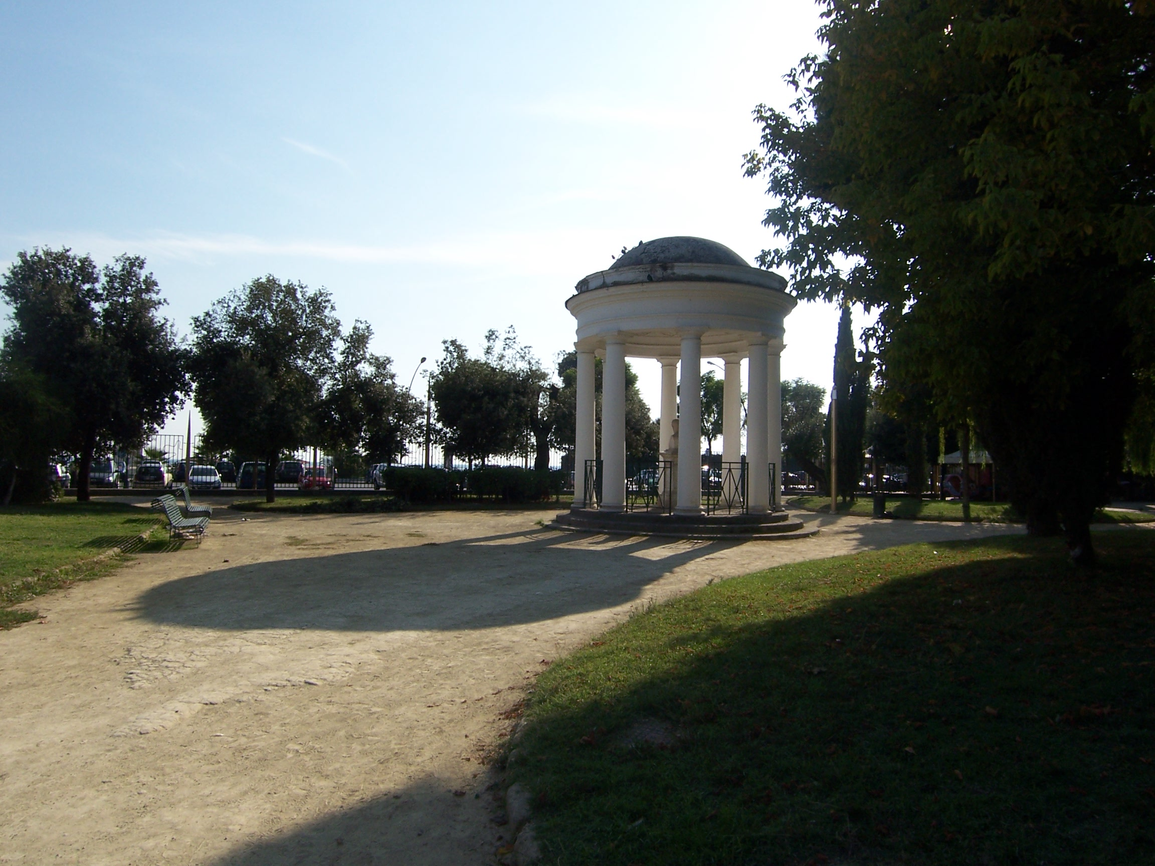 Villa Comunale di Napoli